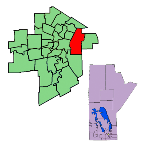 The 1999-2011 boundaries for the Radisson electoral district highlighted in red.